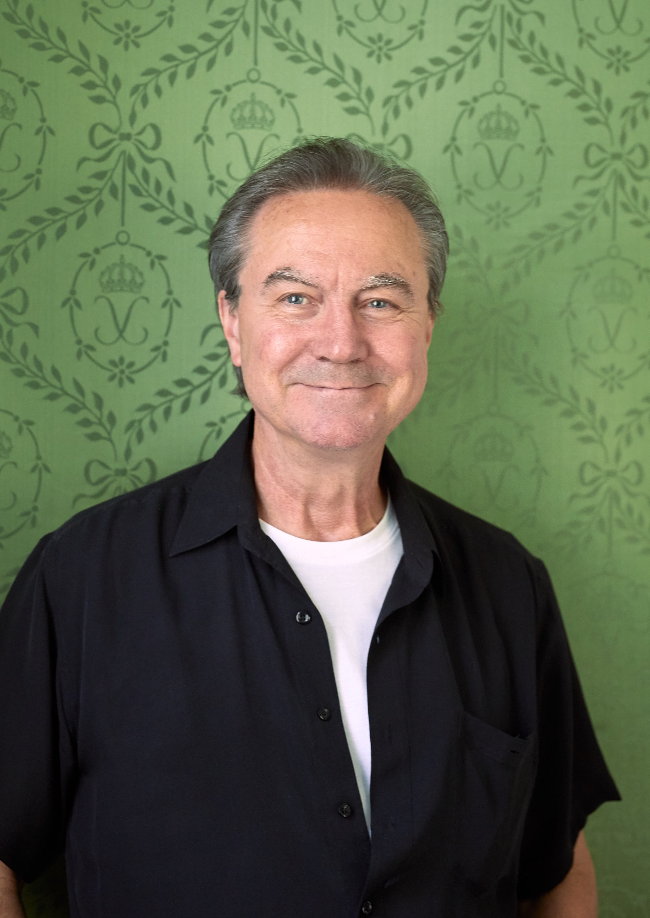 Swedish ballet dancer Per Arthur Segerström photographed at Ulriksdals slottsteater Confidencen.